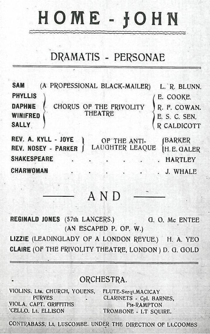 Cast list for the play "Home John", a revue in 3 acts, performed in Holzminden prisoner-of-war camp, 27 July 1918. James Whale appears as "Charwoman".